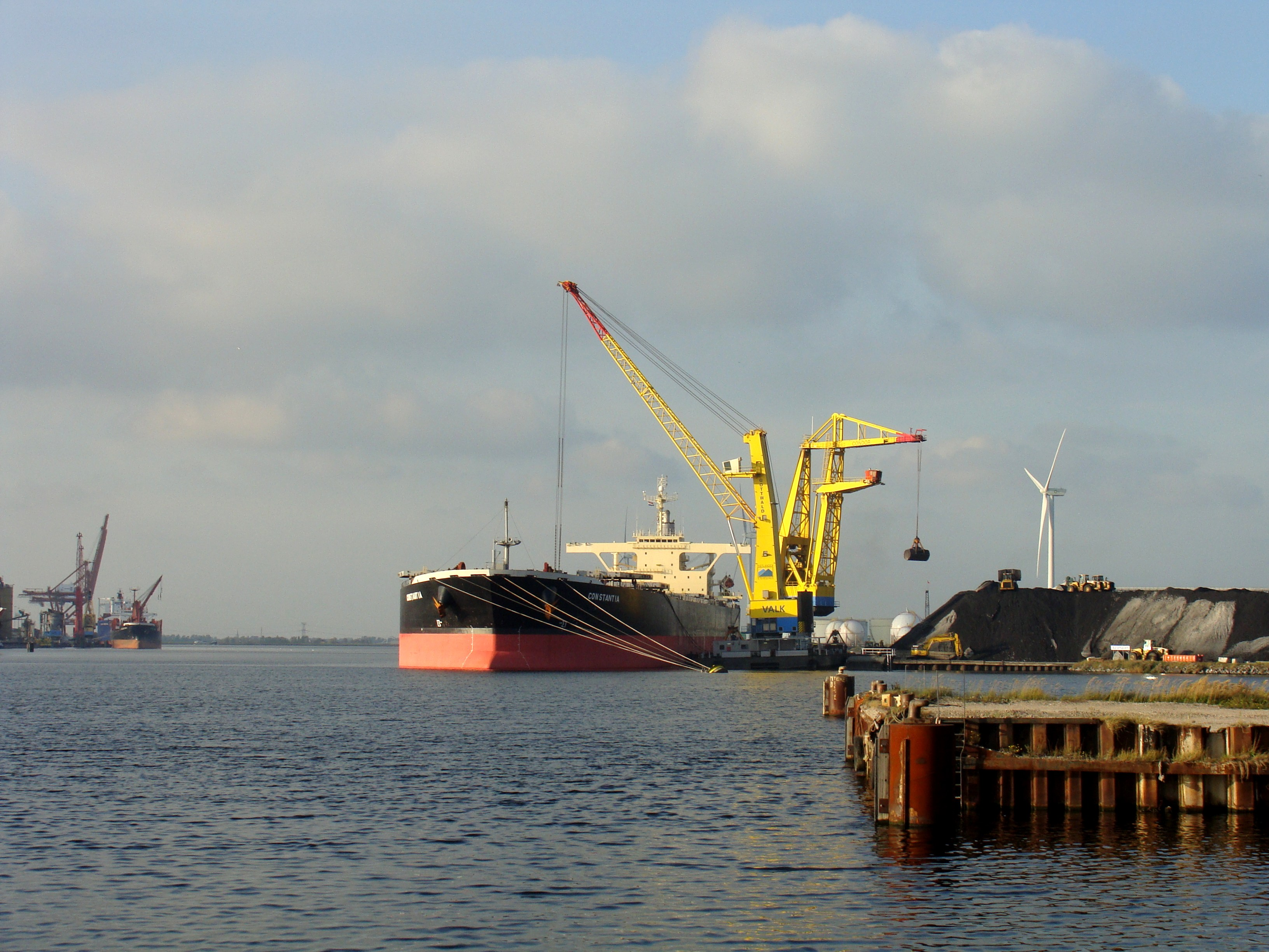 Bulk carrier Constantia (reg. in the Bahamas) unloading coal in the port of Amsterdam